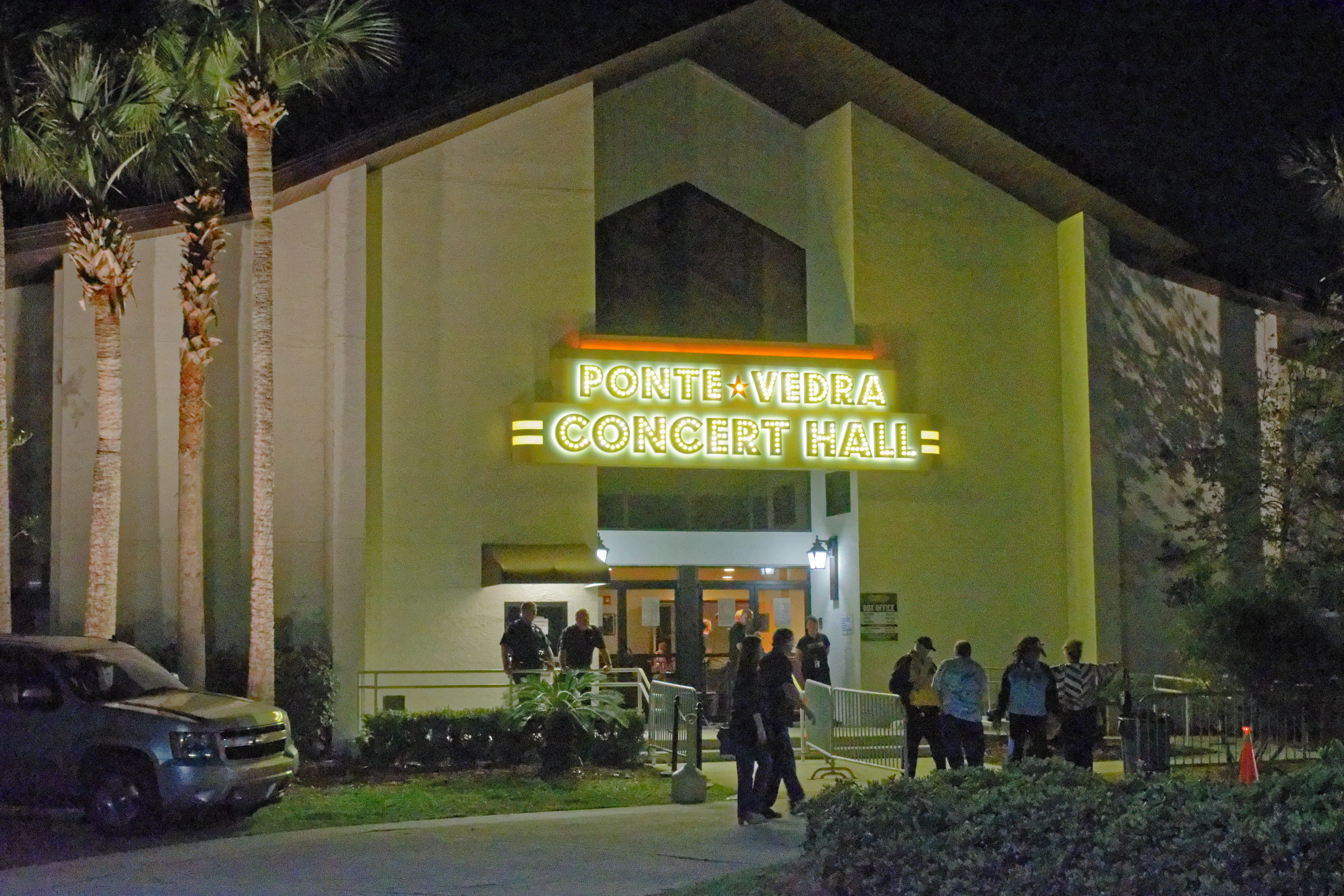 The Ponte Vedra Concert Hall, Ponte Vedra, Florida, US